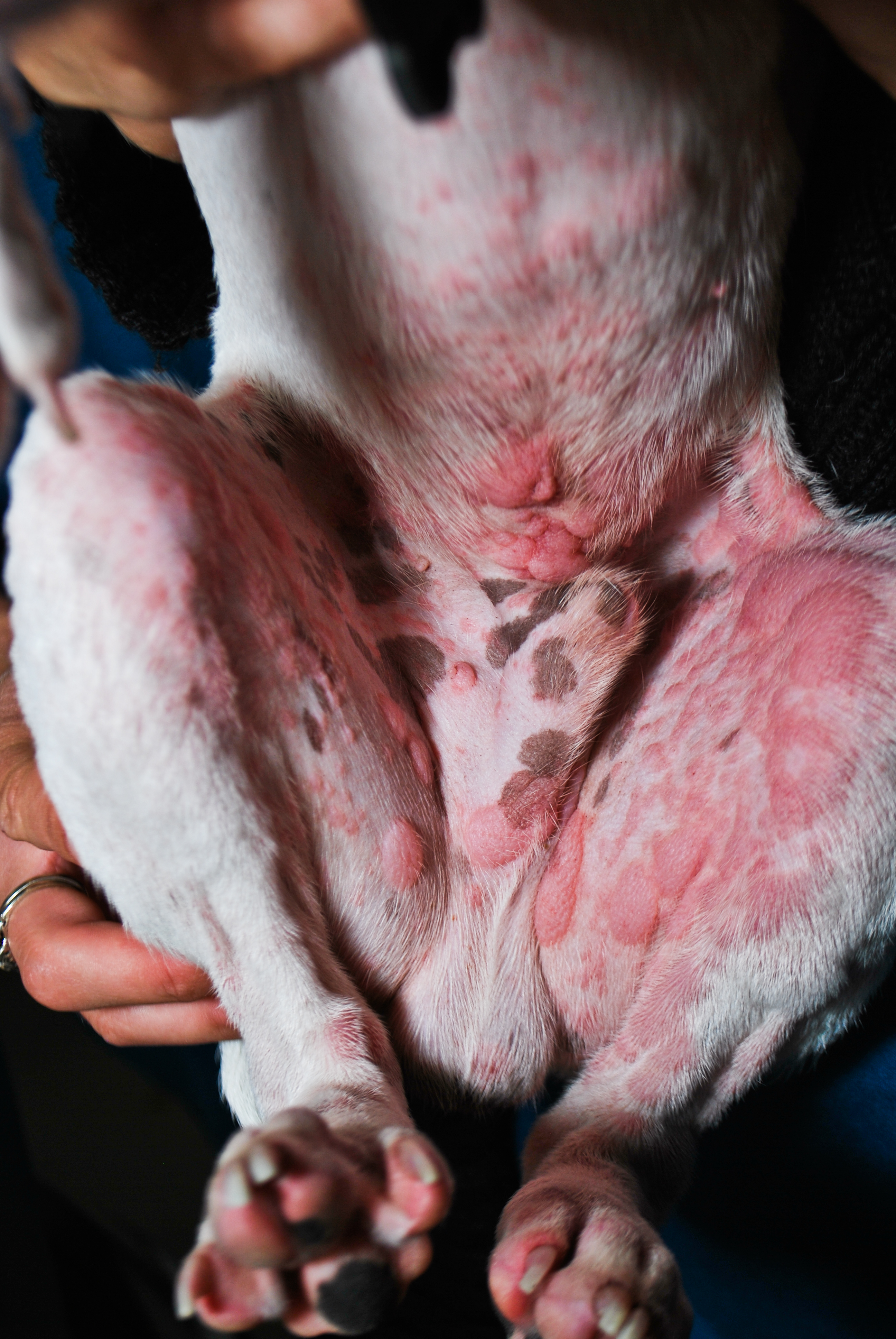 Treated for Allergic Reaction; Quickly a success! See also: Initial reaction Initial reaction After treatment After treatment After more treatment